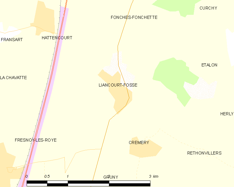 Map of French municipality Liancourt-Fosse